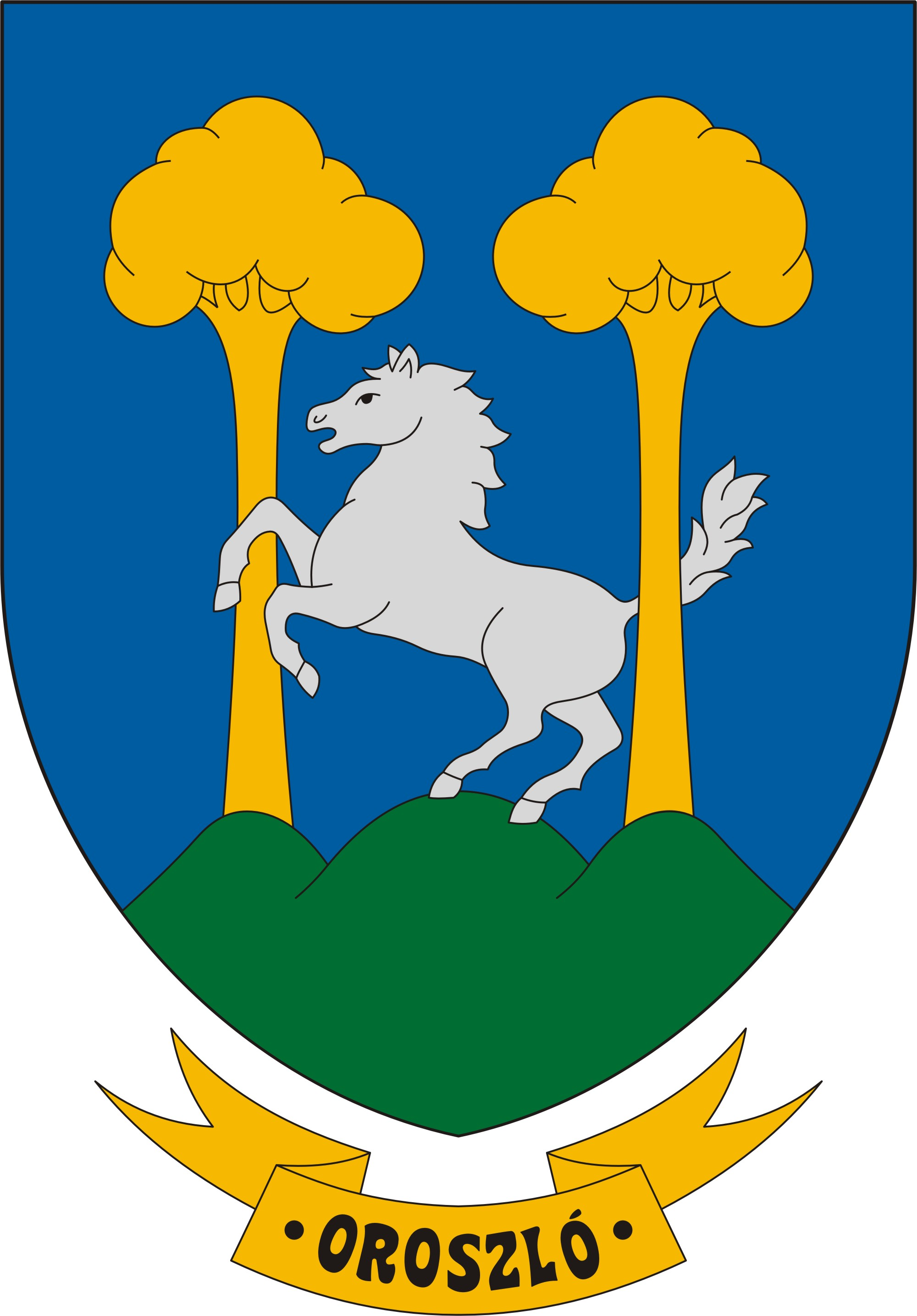 Coat of arms of Oroszló, Hungary